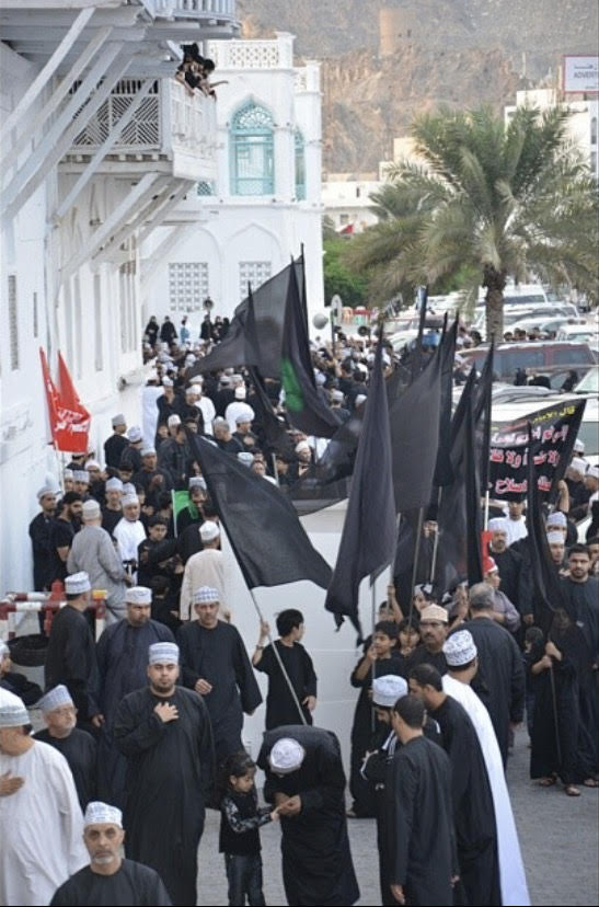 Mutrah Corniche Druing the Visit of Husayn ibn Ali on the 10th of Muharram